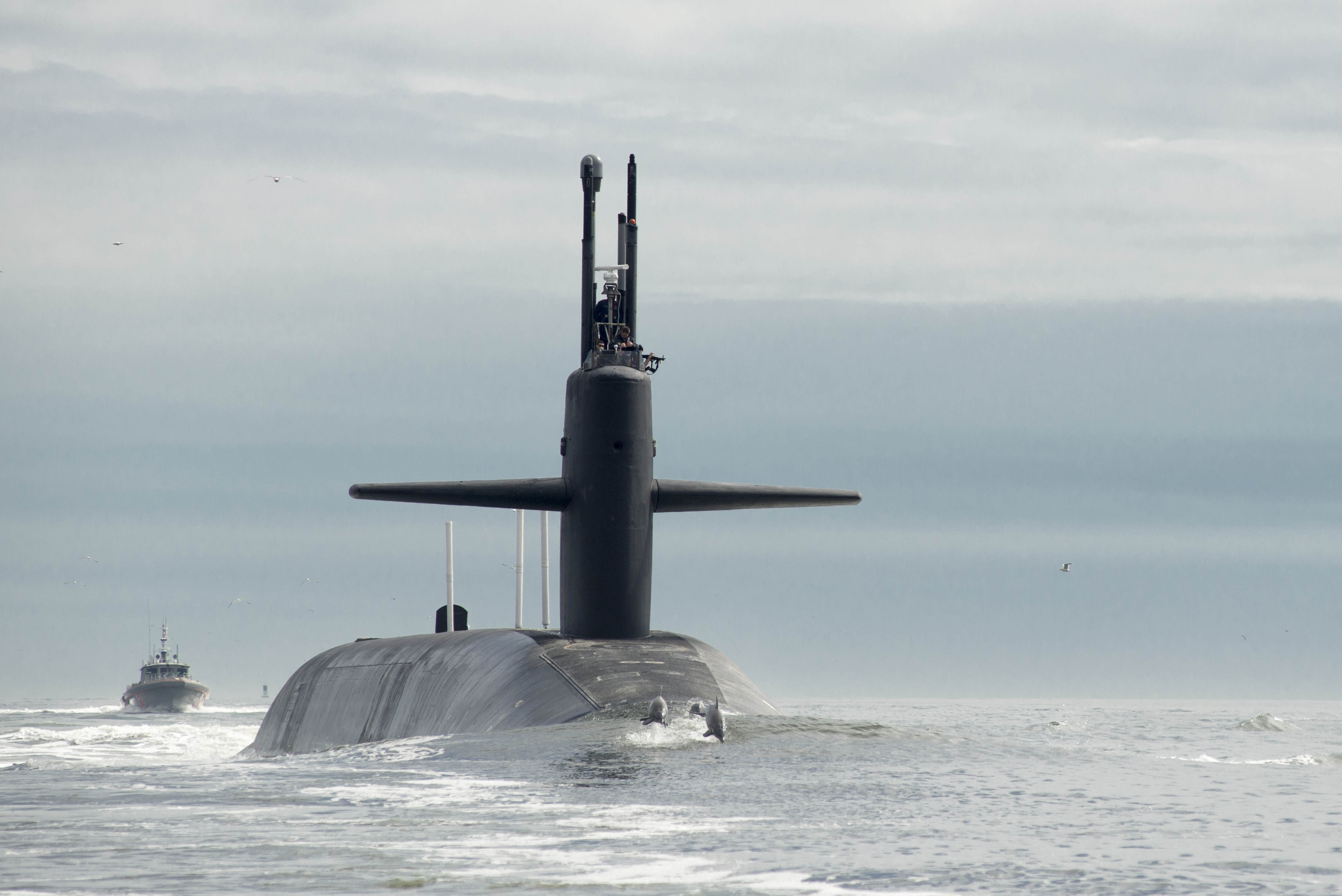 ATLANTIC OCEAN (Feb. 6, 2013) The Ohio-class ballistic missile submarine USS Tennessee (SSBN 734) returns to Naval Submarine Base Kings Bay. Tennessee deployed for operations more than three months earlier.